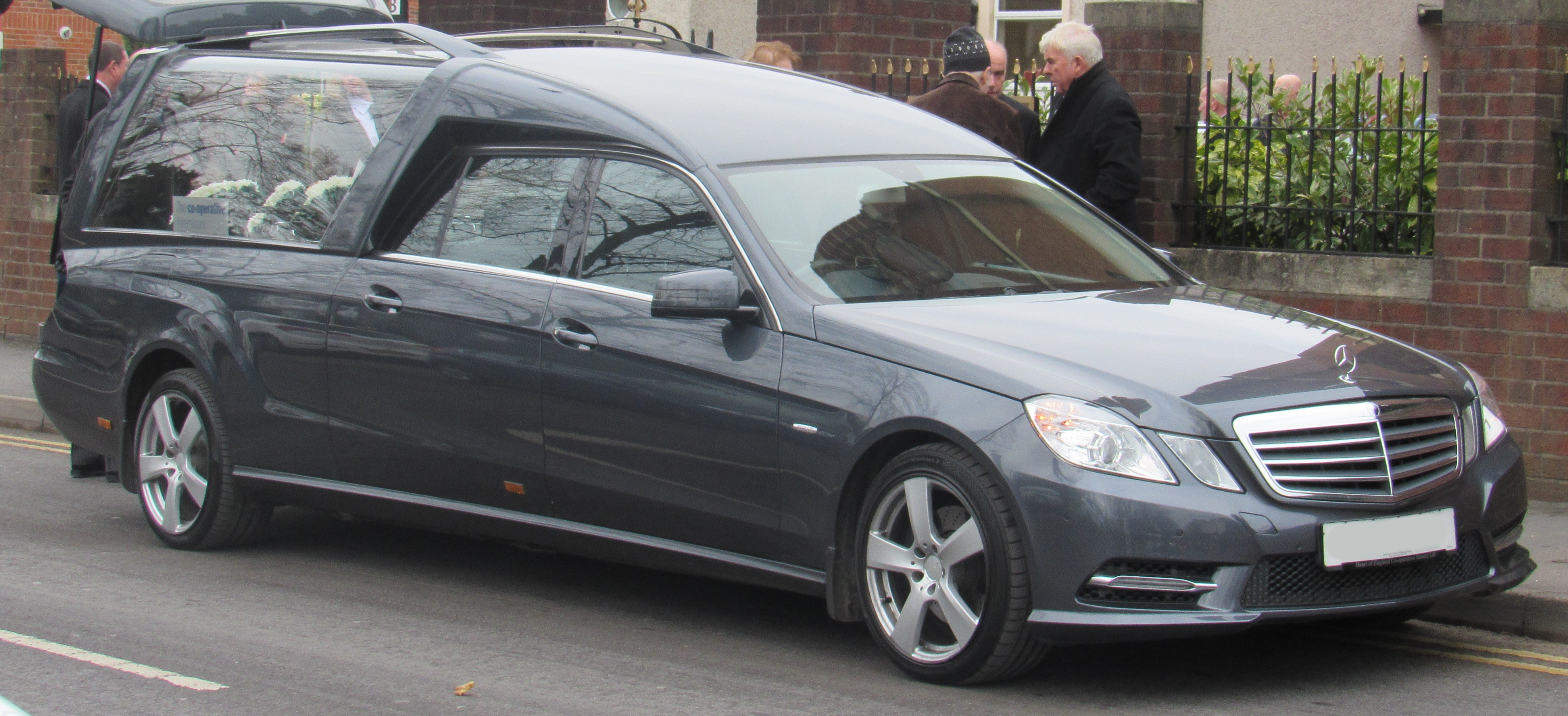 2013 Mercedes-Benz E250 BlueEFFICIENCY SE CDi Automatic Hearse 2.1 Taken in Leamington Spa